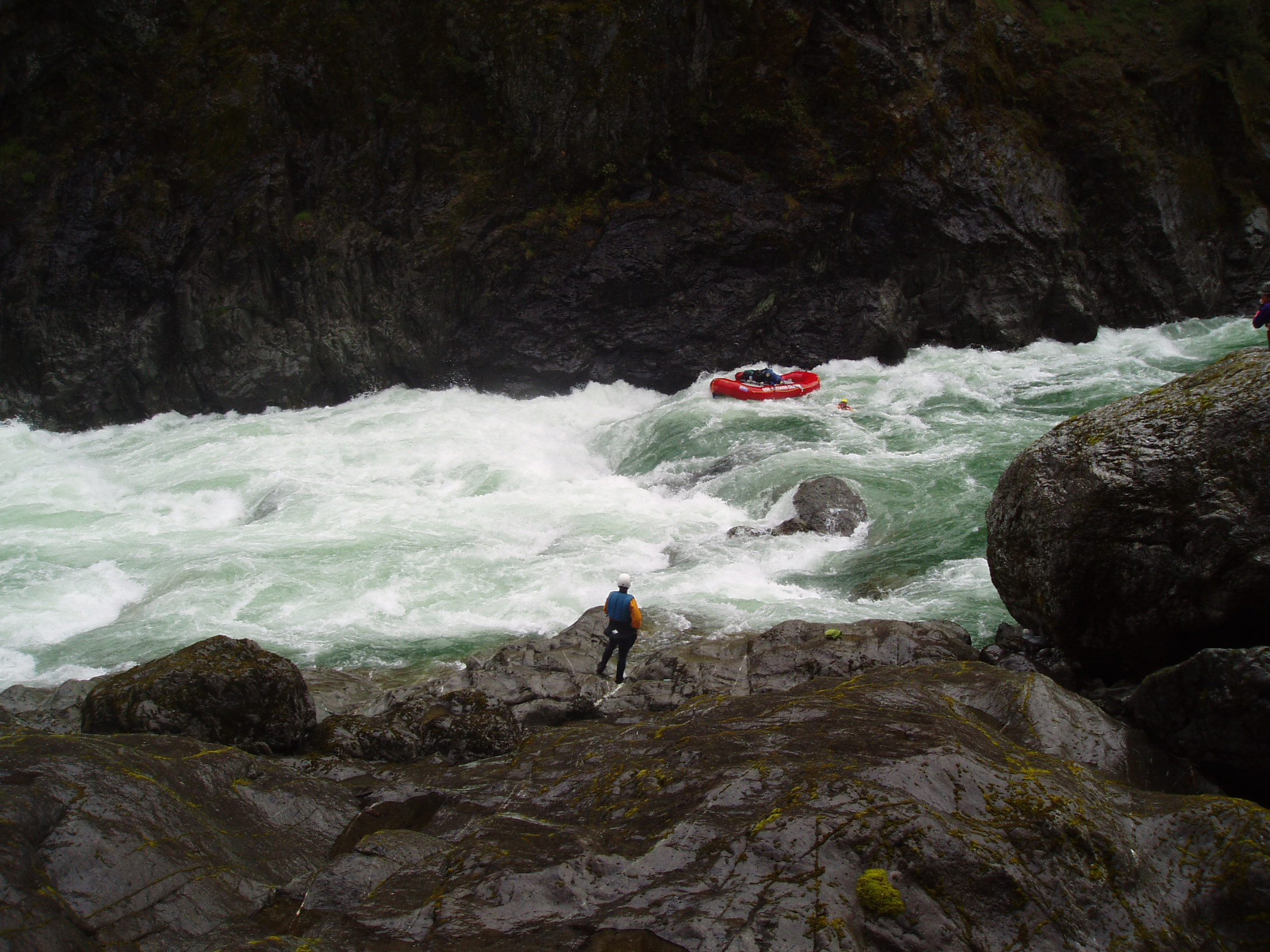 Green Wall rapids, Illinois River, OR, USA; man on shore watches raft and swimmer being swept through Class V rapids; estimated flow 3400cfs